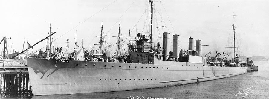 The U.S. Navy destroyer USS Bush (DD-166) at Boston, Massachusetts (USA), on 20 February 1919, the day after she went into commission. Note the open pilothouse structure on this destroyer.